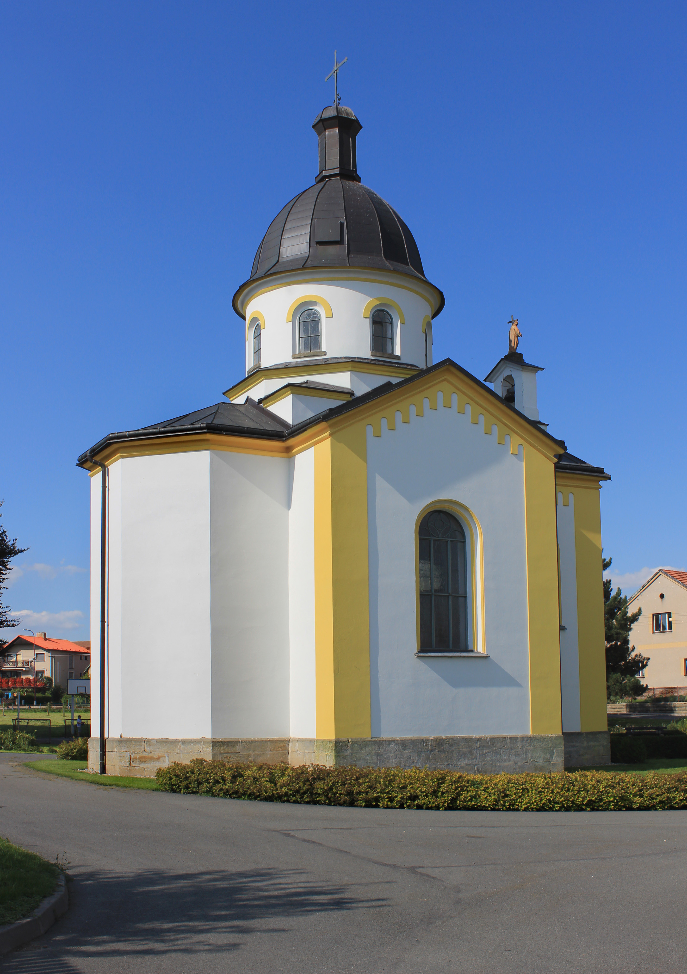 Chapel of Saint Michael in Sedliště, Czech Republic.